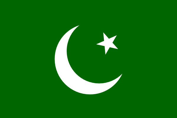 Flag of the All-India Muslim League, British India / Pakistan. Modification of by Ninane, 10:02, 30 December 2007 (UTC).